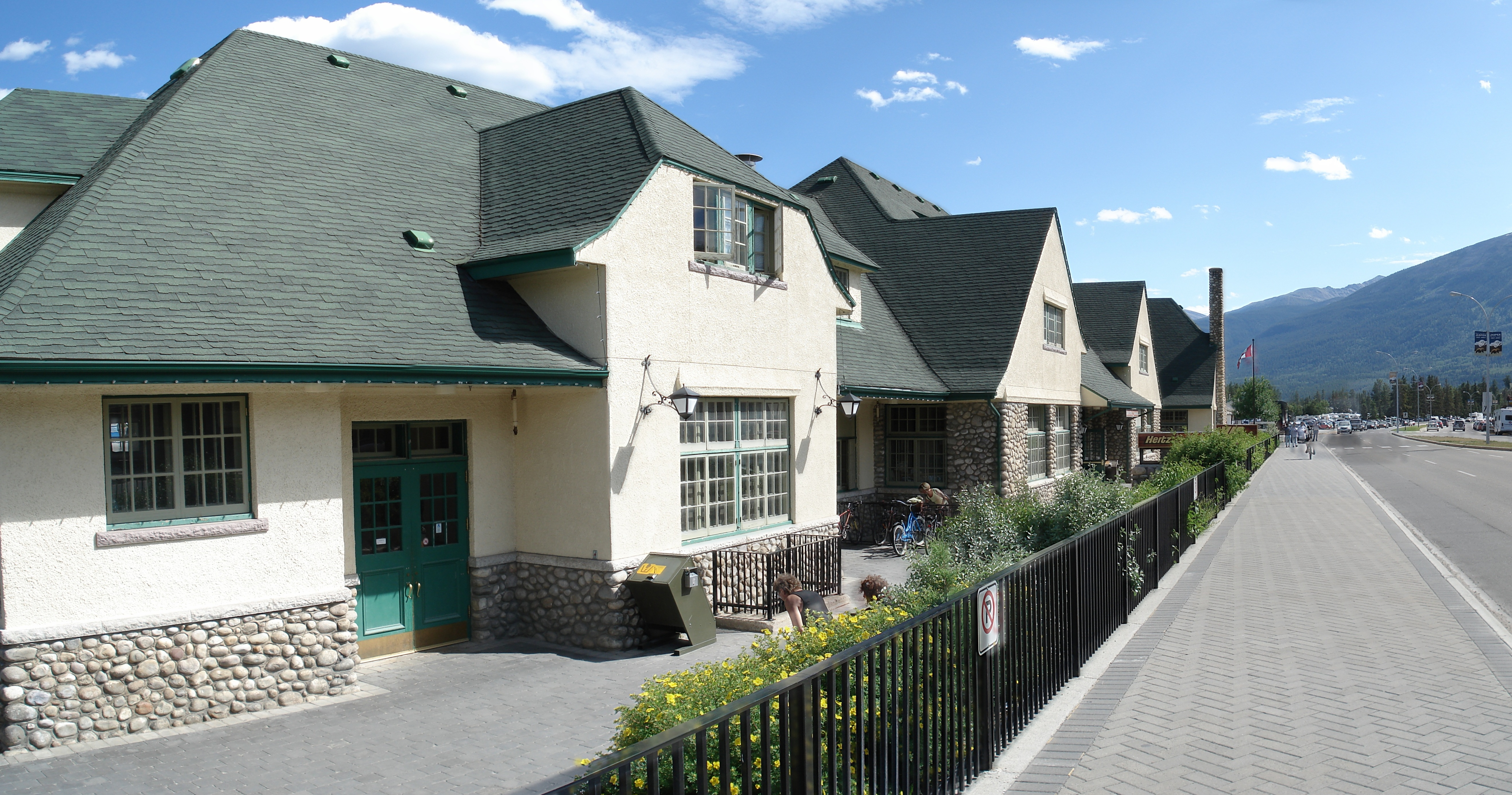 Looking south, down the east side of Connaught Drive in Jasper, Alberta. The building on the left is the Via Rail station.